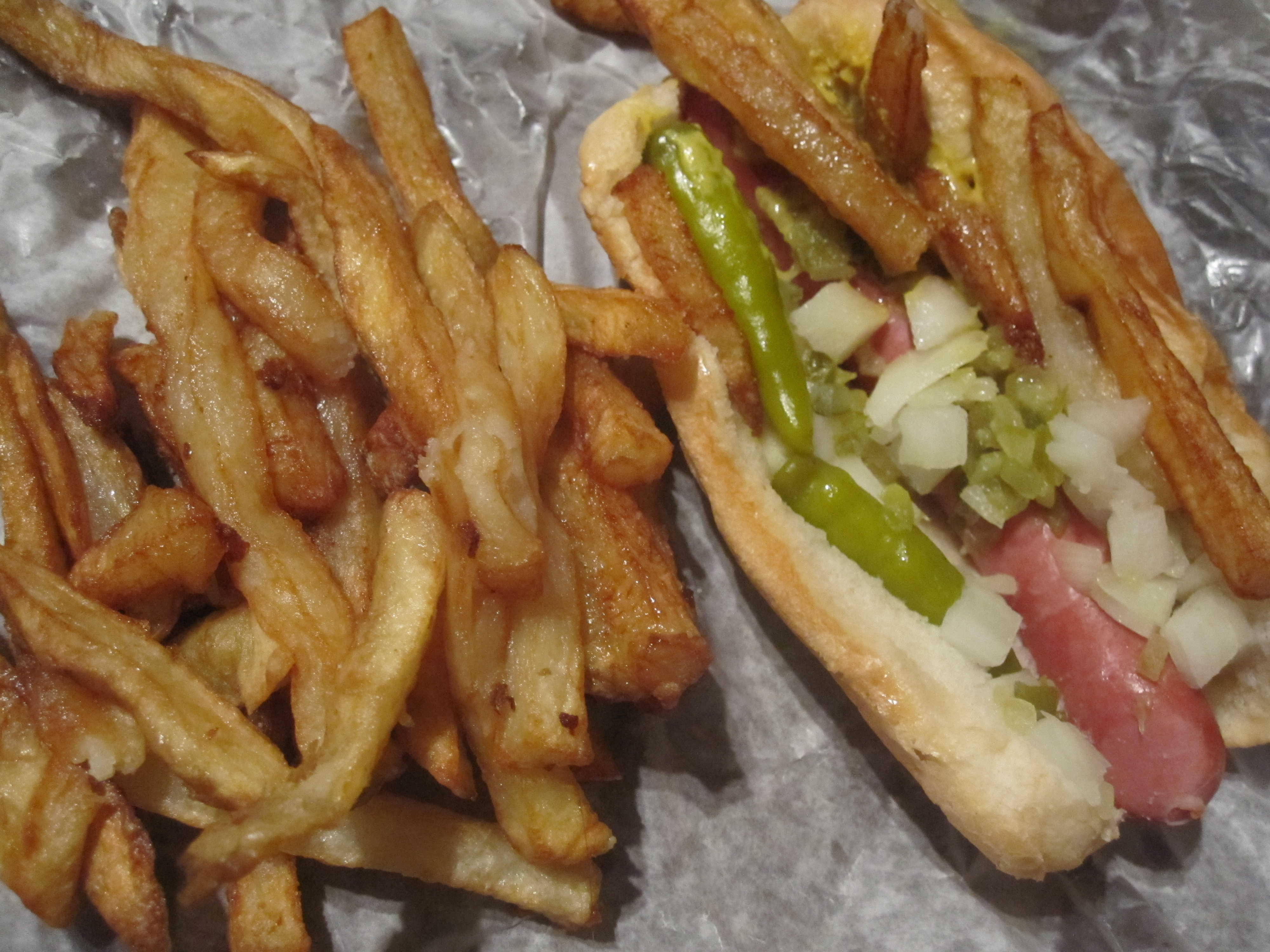 A photo I took of a regular Gene's and Jude's hot dog with everything